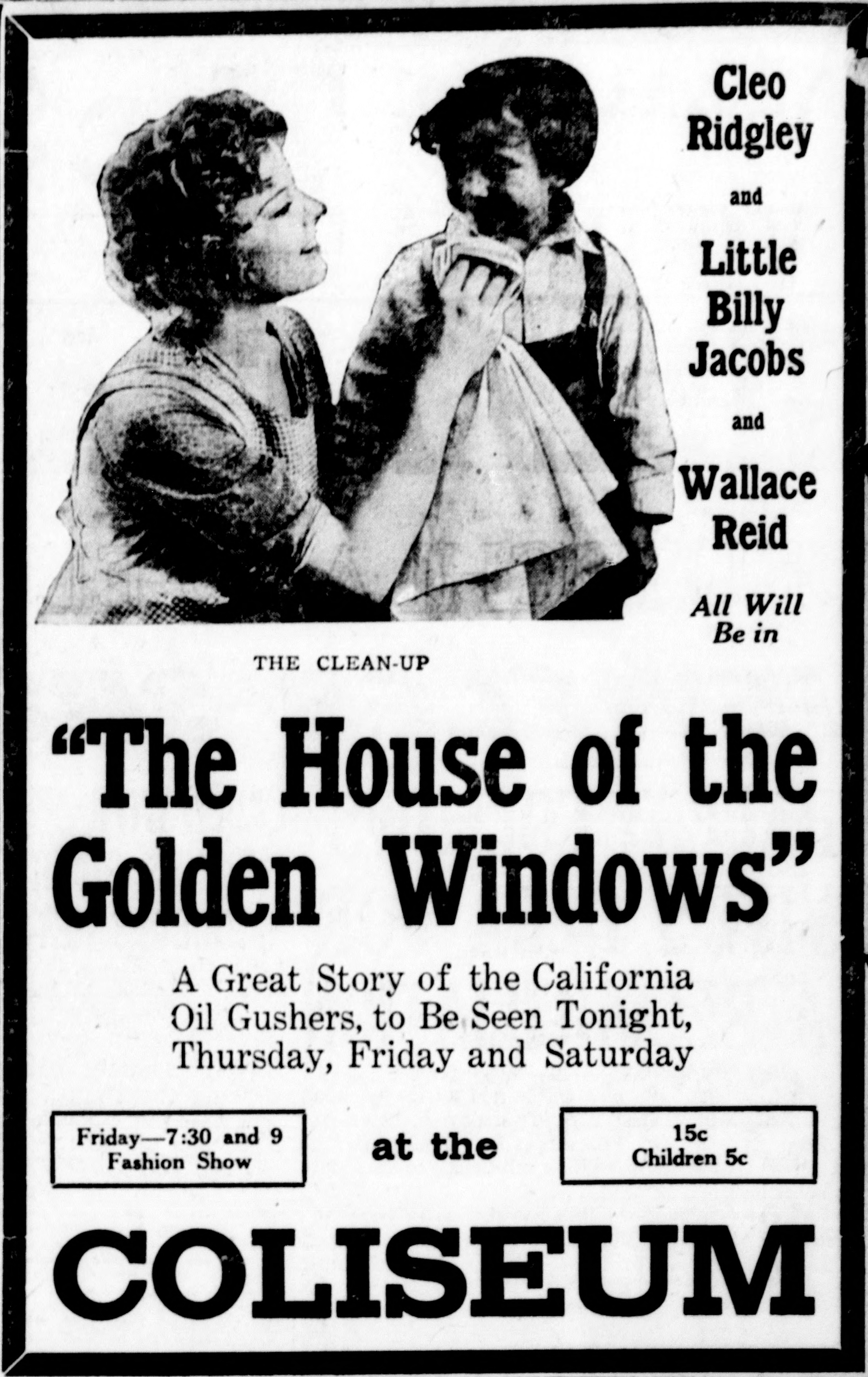 The House with the Golden Windows is a 1916 American drama silent film directed by George Melford and written by Charles Sarver. This is a newspaper advert for the film.